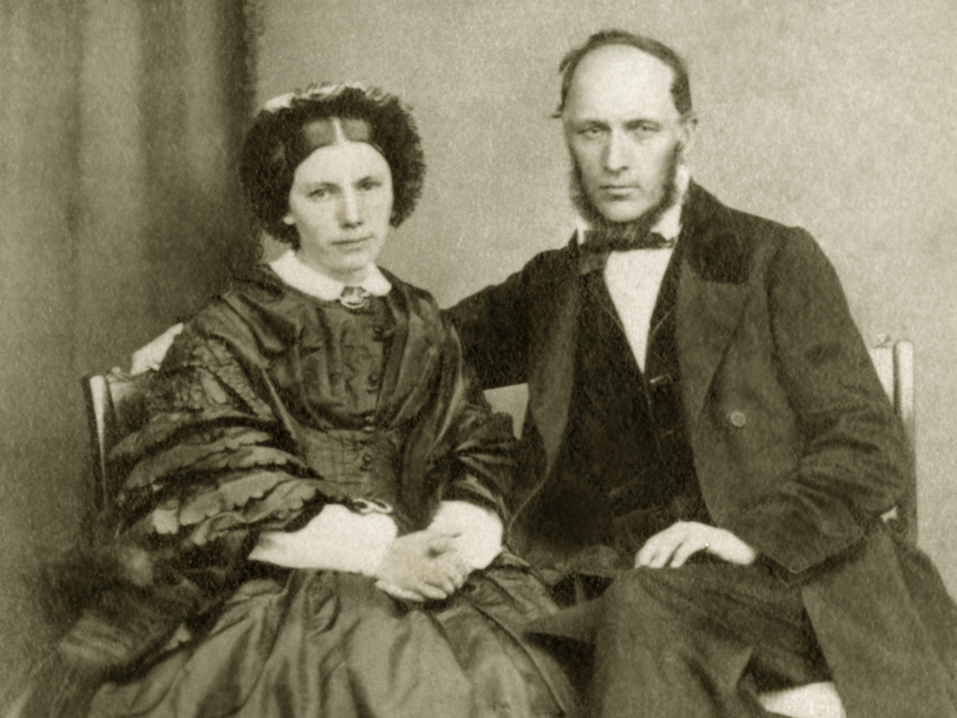 Pastor Martin Körber and Karoline Hesse